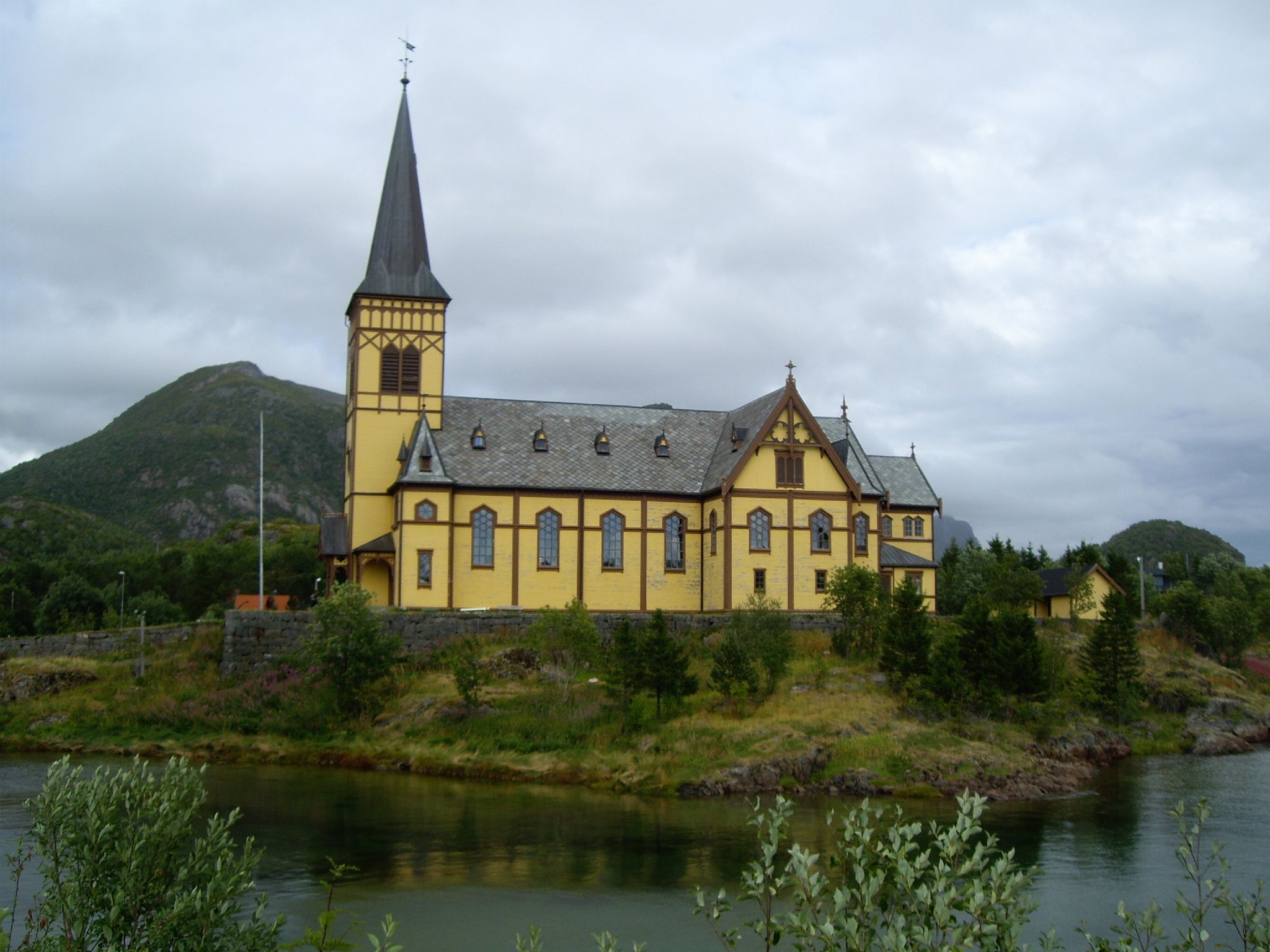 Vågan Church (Lofoten Cathedral) in Kabelvåg, Nordland in Norway from 1898. Wooden church in Gothic revival style. Architect Carl Julius Bergstrøm.